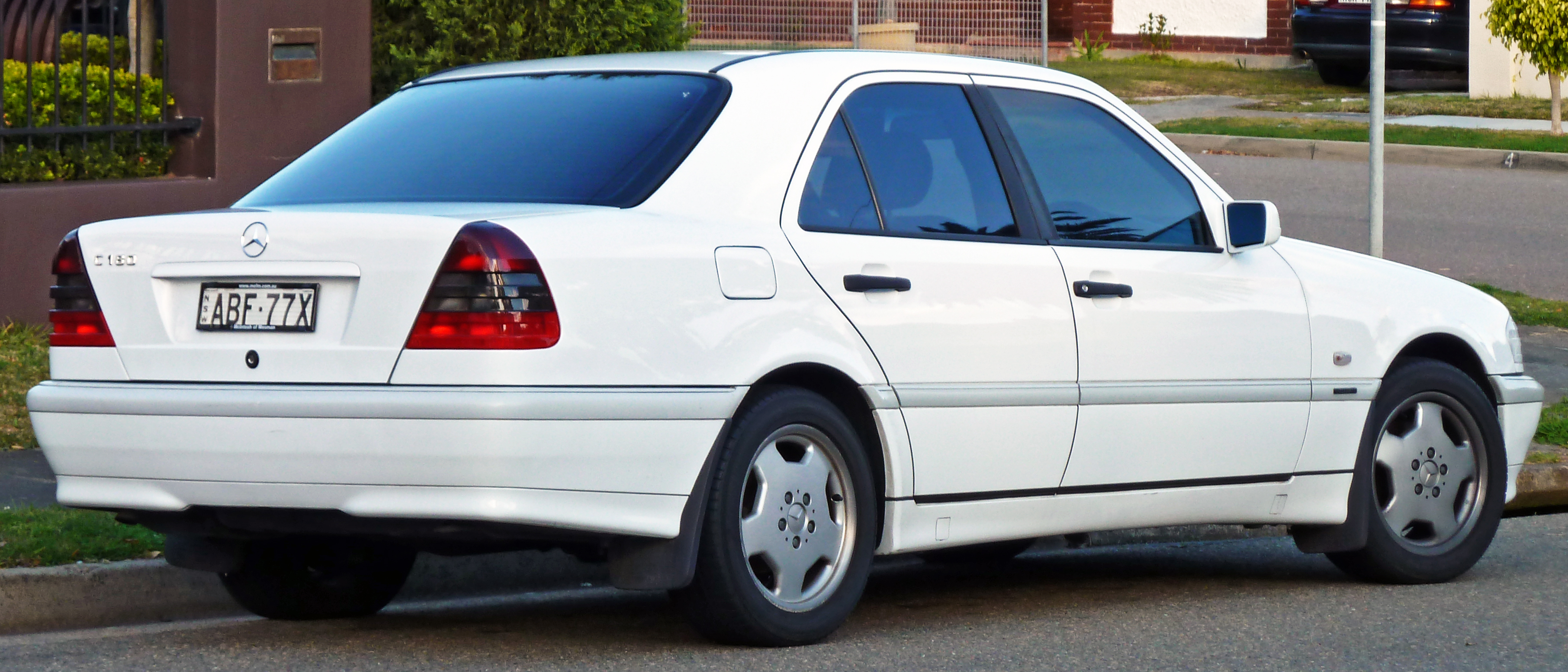 1998 Mercedes-Benz C 180 (W 202) Classic sedan. Photographed in Sans Souci, New South Wales, Australia.